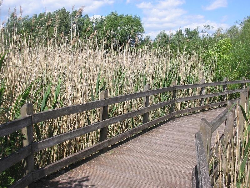 Common reed in the Tiefwerder Wiesen. Tiefwerder is a former village, founded in 1816, in Berlin-Spandau and an ait in Berlin-Wilhelmstadt from river Havel. The Tiefwerder Wiesen (meadows) are a protected area (german: Landschaftsschutzgebiet) and Berlins last natural flood plain and last spawn-area for the Northern pike.